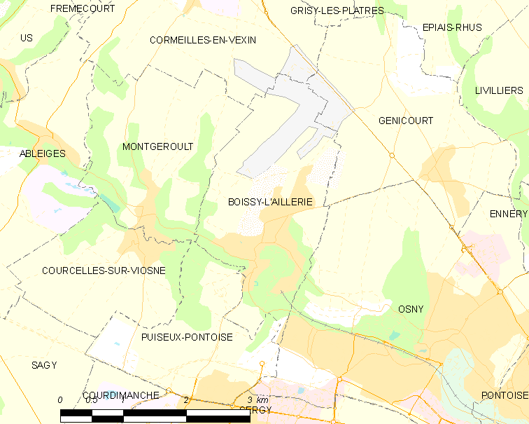 Map of French municipality Boissy-l'Aillerie